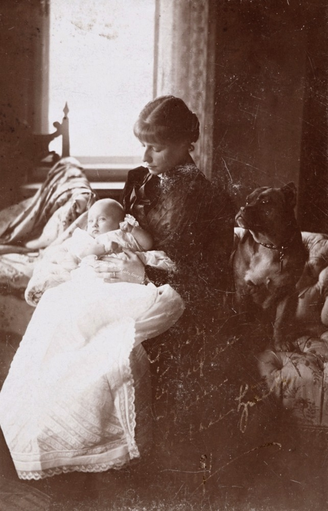 Princess Maria Teresa of Hohenzollern Sigmaringen, neé Princess Borbon due Sicilies, with daughter, Princess Augusta Viktoria, later Queen of Portugal